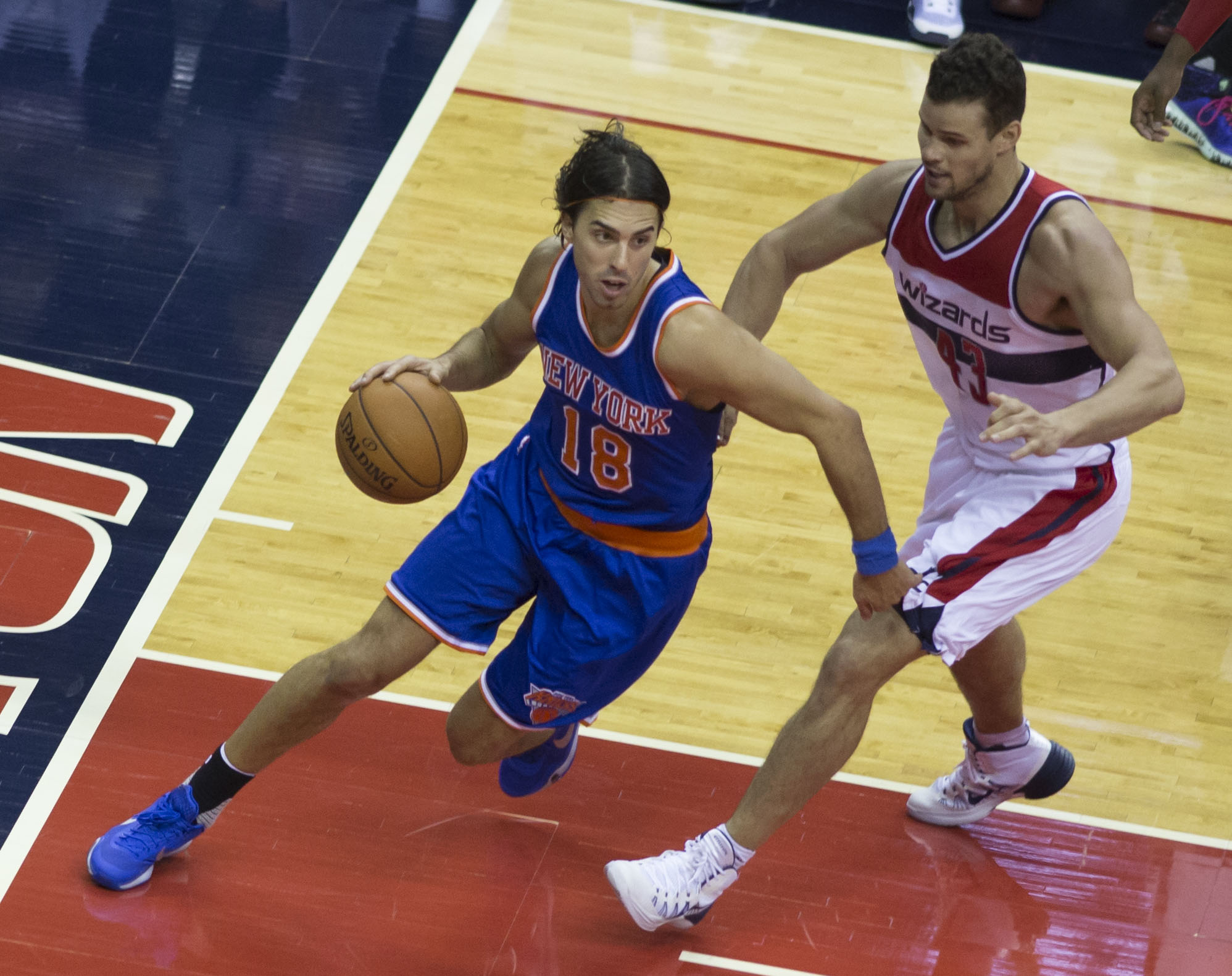 Knicks at Wizards 10/31/15